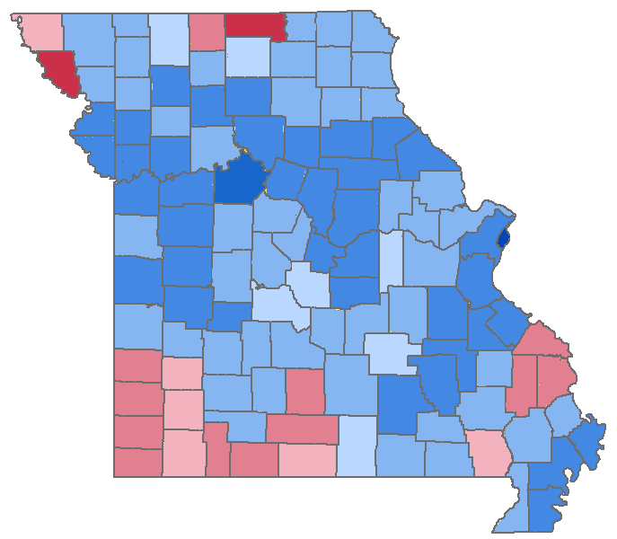 Results of the 2002 Missouri Auditor election